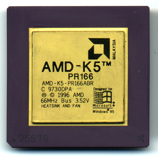 AMD K5 PR-166 microprocessor Source: my own CPU collection Other version: that's how the bottom side looks like